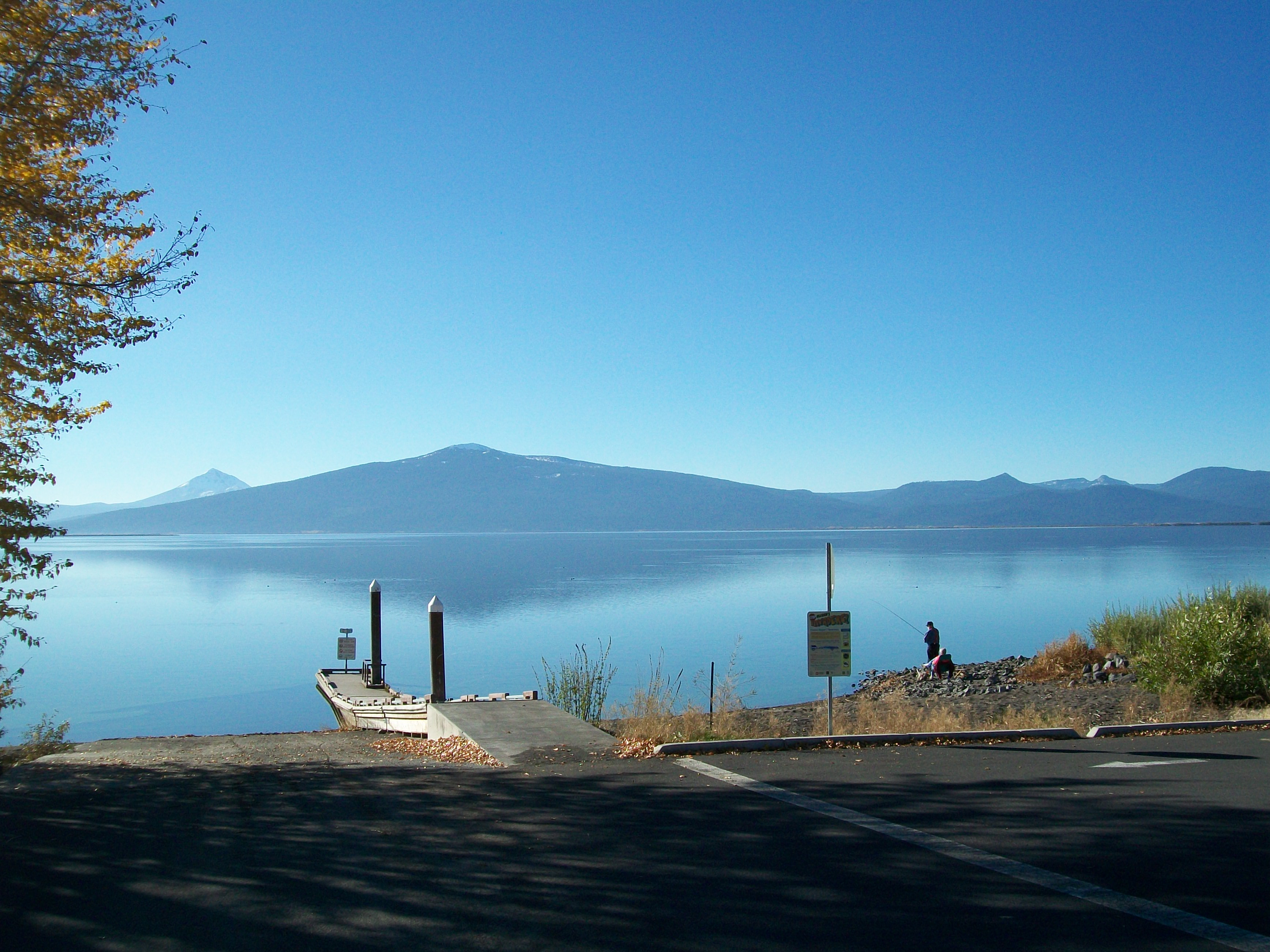 East docks Agency Lake (Oregon), USA. Mount McLoughlin in the far left.